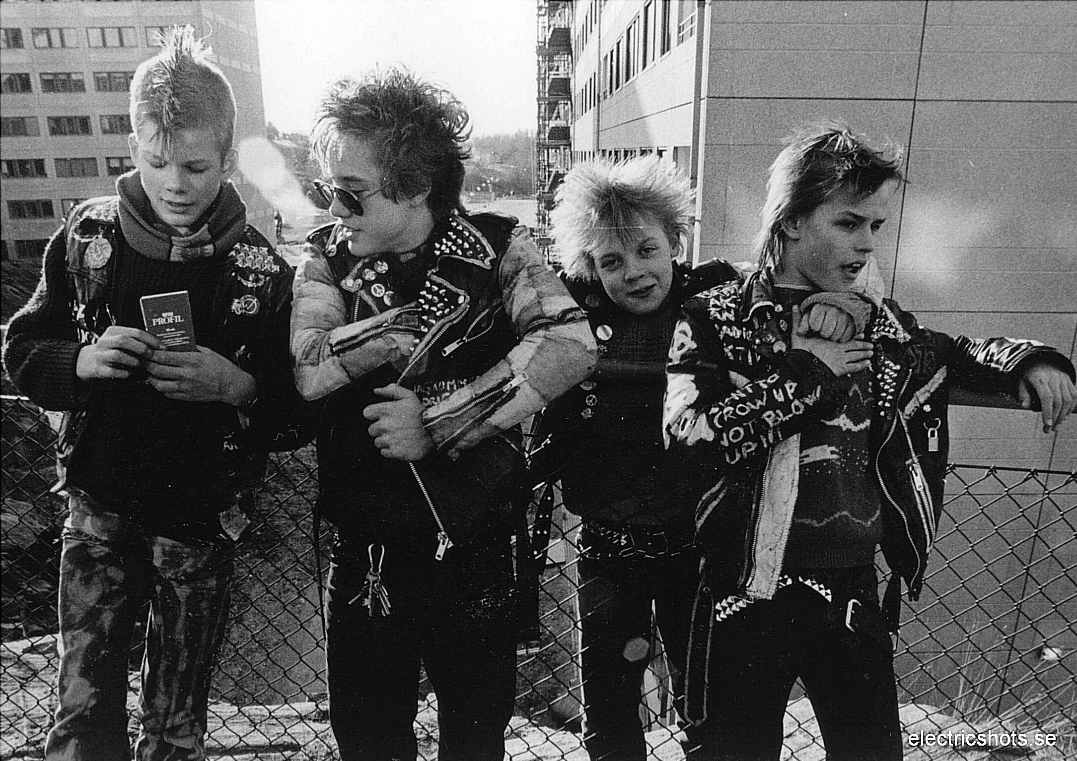 Photo taken by Sebastian Todor